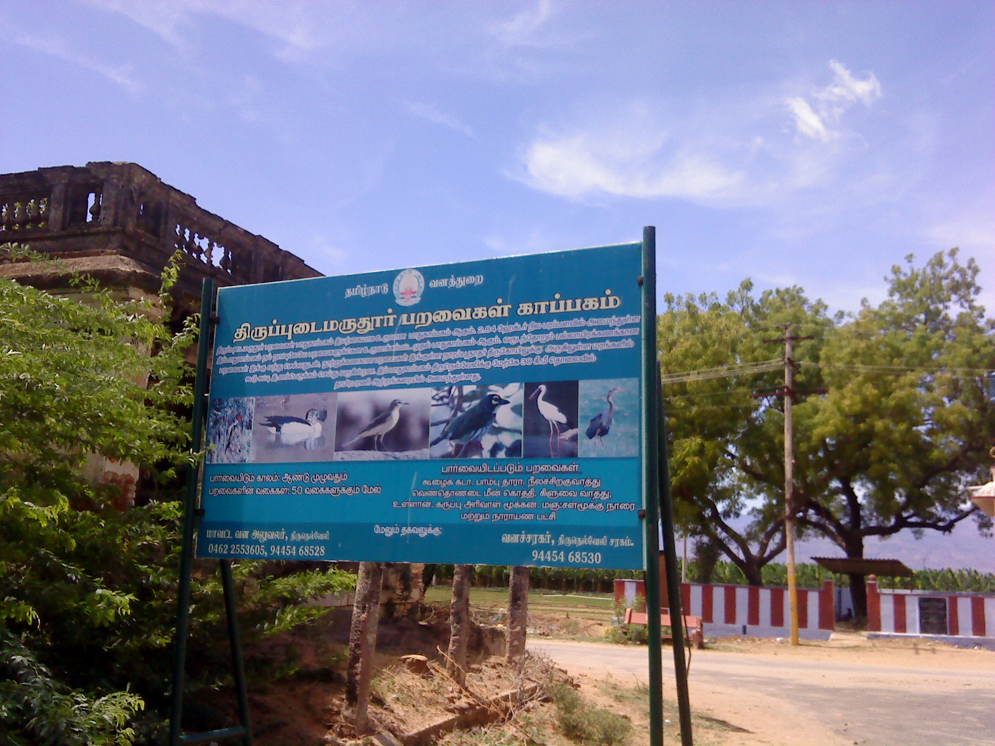 Thiruppudaimarudur village